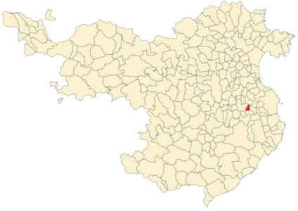 Ultramort